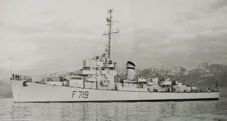 The French frigate Bambara (F719) underway, in October 1957.